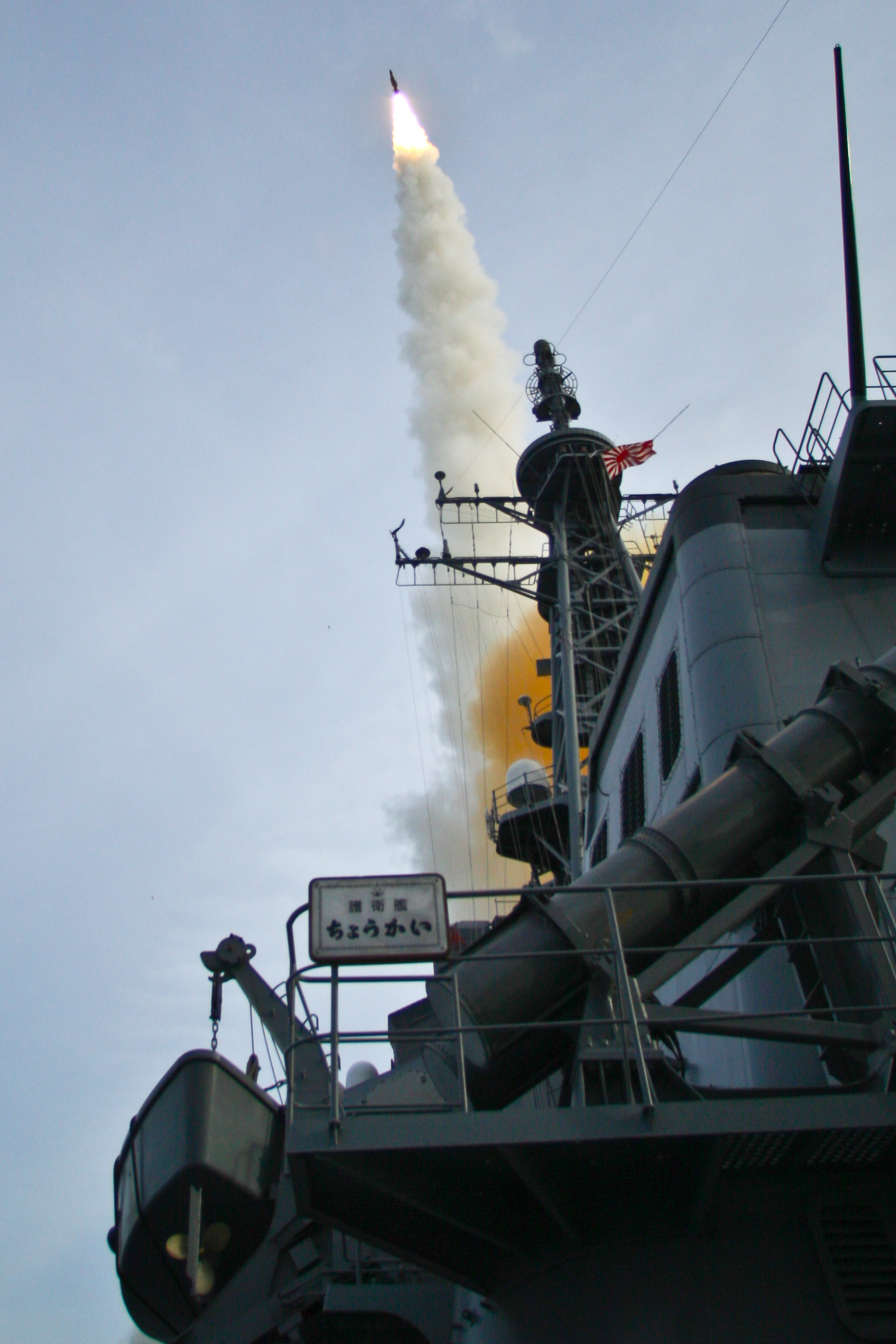 Nov. 19, 2008 - A Standard Missile-3 (SM-3) is launched from the Japanese Ship (JS) CHOKAI (DDG-176) in a joint missile defense intercept test, with the Missile Defense Agency, in the mid-Pacific. The SM-3 was attempting to intercept a medium range separating target that had been launched minutes earlier from the Pacific Missile Range Facility, Barking Sands, Kauai, Hawaii. The CHOKAI's crew had detected and tracked the target and its weapons system developed a fire control solution, then launched the SM-3. The system, crew and missile performed as expected, but in the last few seconds of flight, the SM-3 failed to intercept the target. While the failure is under investigation, the CHOKAI will return to Japanese waters after it has loaded some SM-3 interceptors in Pearl Harbor. (Photo Courtesy MDA) Learn more at